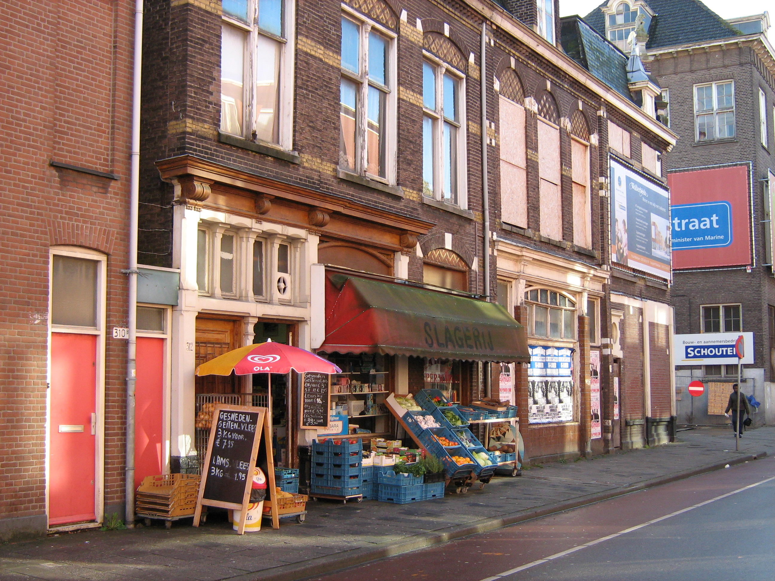 Street: Hoefkade Neigbourhood: Schilderswijk City: Den Haag Country: The Netherlands. A lot of immigrants live in the Schilderswijk.